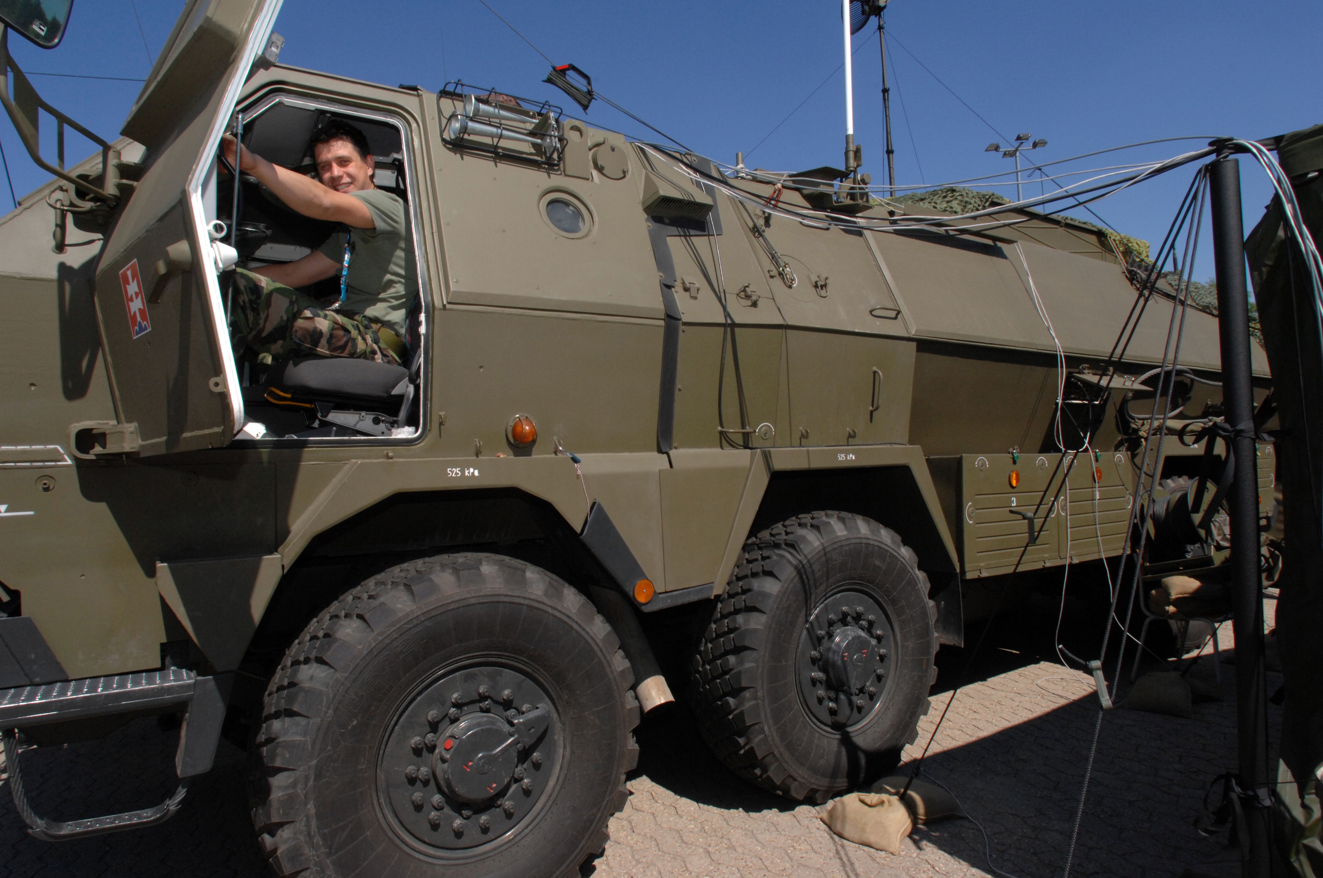 Slovak Republic army 1st Lt. Stefan Cahoj climbs into a Tatrapan 6×6 armored terrain vehicle during Combined Endeavor 2008 in Baumholder, Germany, May 11th, 2008. More than 35 participating nations use the exercise to plan, prepare and practice using a full range communications equipment, policies and procedures prior to deploying for NATO missions and emerging, real world crisis situations.